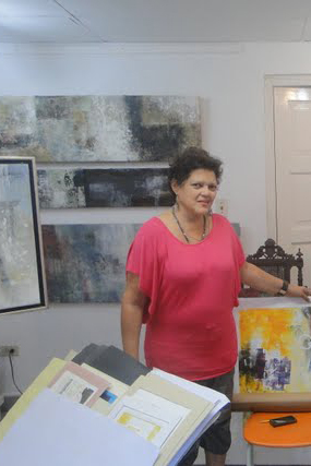 Julia Emilia Valdés Borrero in her studio in Habana